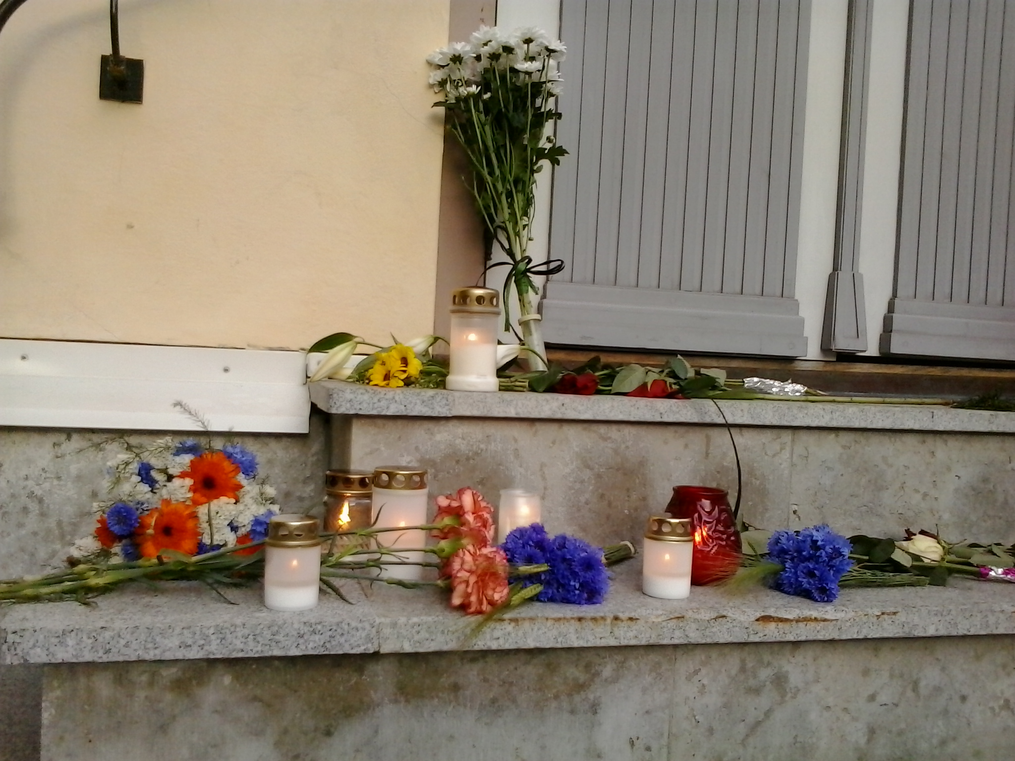 Flowers and vigil candles placed at the doorsteps of Embassy of Netherlands to Estonia (close up).